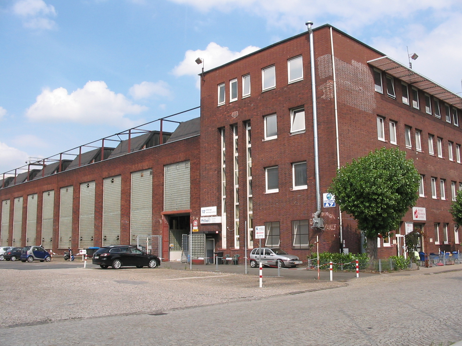 Hall A7 at Wittener Industrie- und Technologie-Park